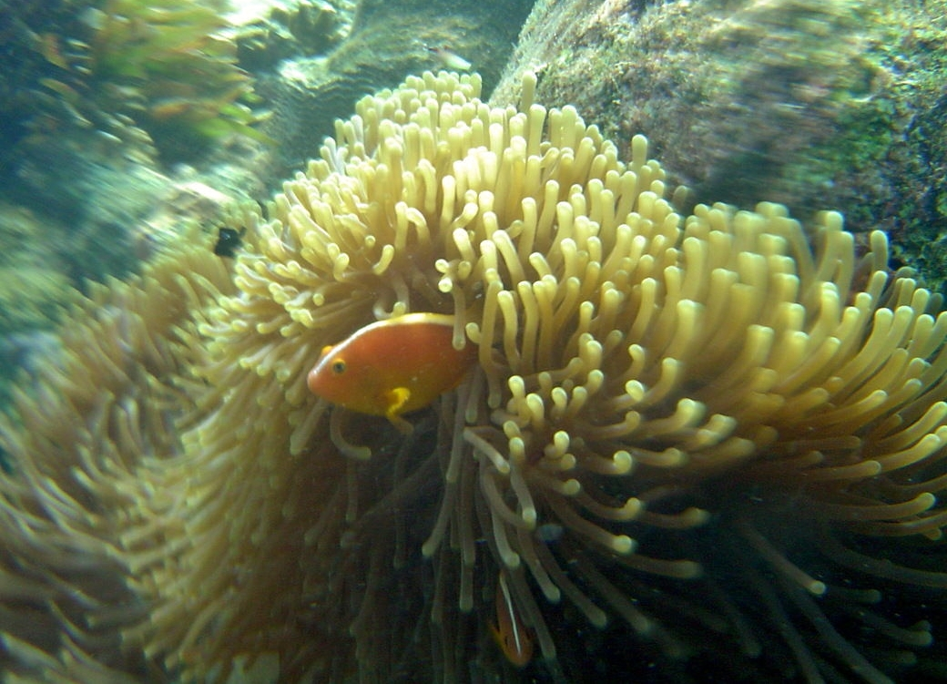 Amphiprion akallopisos in Heteractis magnifica, Aldabra atoll, Seychelles